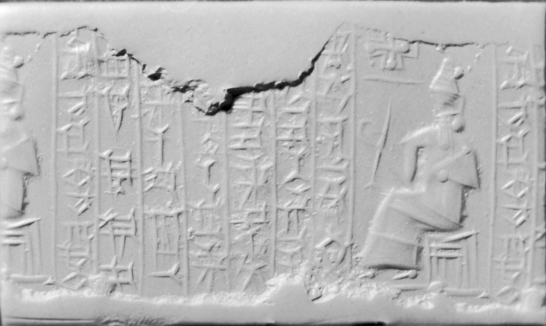 The Kassites were a people from the northwest who installed themselves as the rulers of southern Mesopotamia, unified under the name of Babylonia. They adopted much of its culture, including the cylinder seal. Their seals tend to be tall and thin and often devote much of the surface to inscriptions of prayers, as in this example, which also depicts a seated deity holding divine symbols.